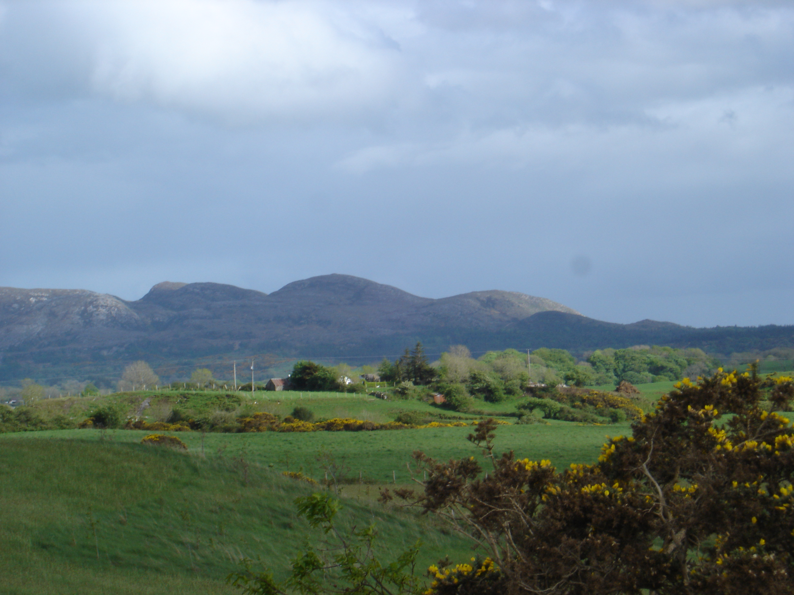 Hills near Carrowmore with a megalithic tomb on each, County Sligo